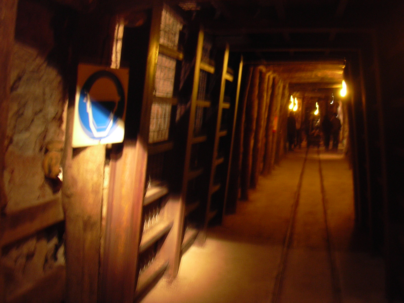 Gavorrano mines, Tuscany/Italy, interior